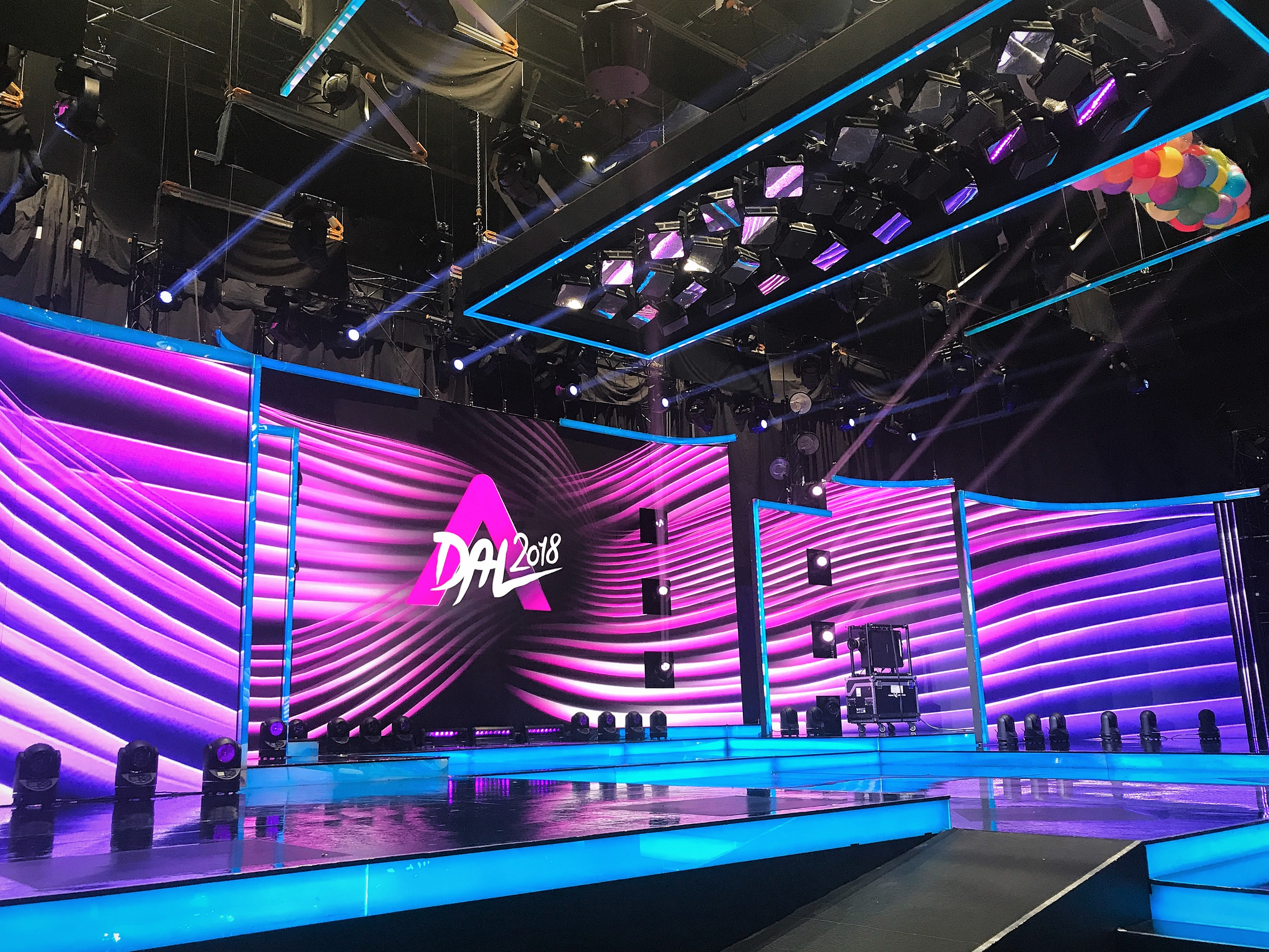 A Dal 2018 stage before the first semi-final